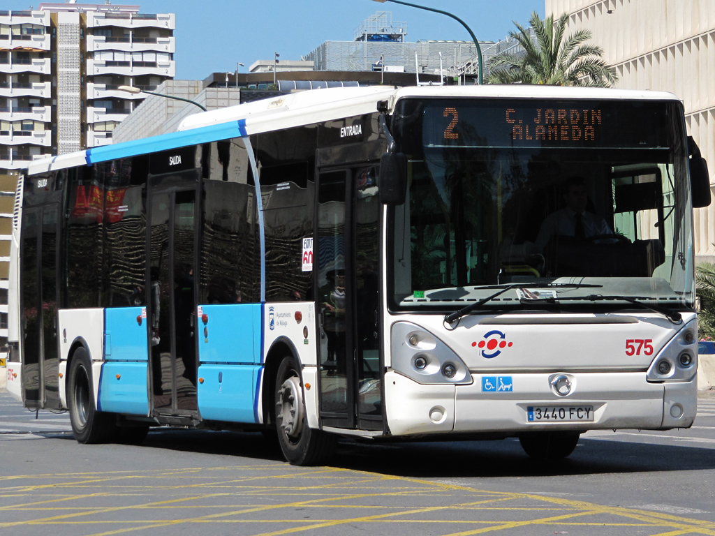 Irisbus Citelis serving the 2nd line of the EMT Málaga going through Tetuan bridge.